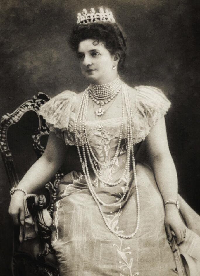 Giacomo Brogi (1822-1881) - Queen Marguerite of Italy.